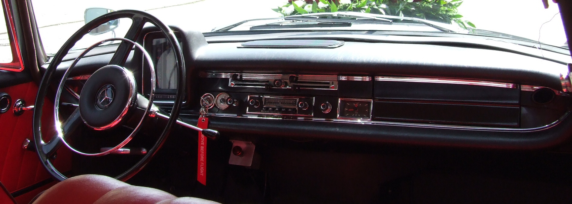 This picture shows the inside view ("cockpit") of a 190c incl an Original FM capable radio receiver (Blaupunkt "Frankfurt") from 1964.